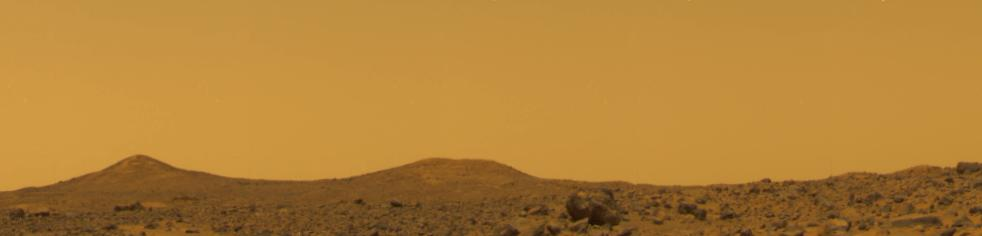 The Martian sky at noon is yellow-brown, which contrasts with its pinkish-red color at sunset. The true color of Mars based upon three filters with the sky set to a luminance of 60. The color of the Pathfinder landing site is yellowish brown with only subtle variations. These colors are identical to the measured colors of the Viking landing sites reported by Huck et al. [1977]. This image was taken near local noon on Sol 10. A description of the techniques used to generate this color image from IMP data can be found in Maki et al., 1999. Note: a calibrated output device is required accurately reproduce the correct colors. Mars Pathfinder is the second in NASA's Discovery program of low-cost spacecraft with highly focused science goals. The Jet Propulsion Laboratory, Pasadena, CA, developed and manages the Mars Pathfinder mission for NASA's Office of Space Science, Washington, D.C. JPL is an operating division of the California Institute of Technology (Caltech). The IMP was developed by the University of Arizona Lunar and Planetary Laboratory under contract to JPL. Peter Smith is the Principal Investigator.